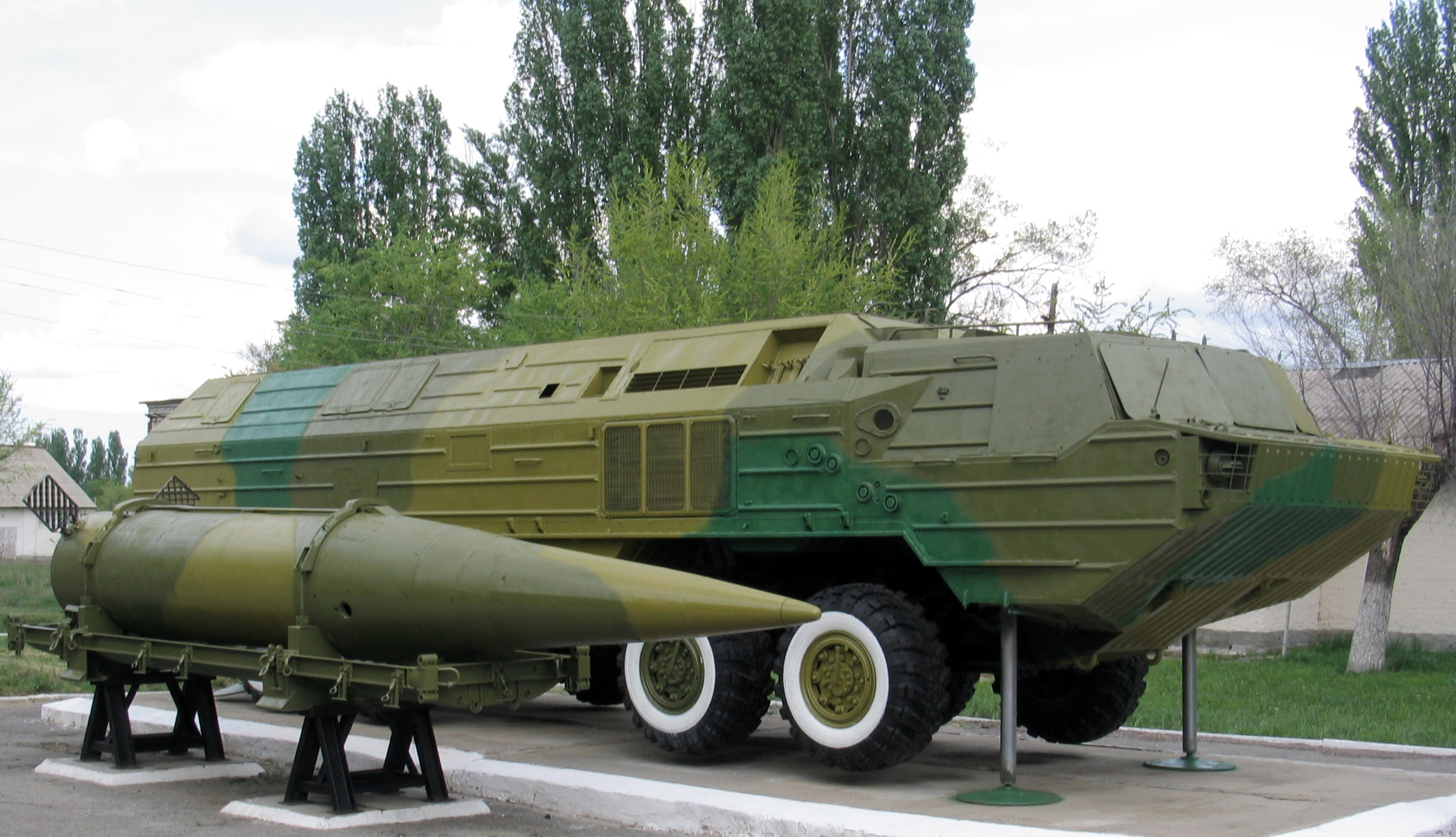 9M714 missile and 9P71 Transporter-Erector-Launcher of 9K714 missile complex «Oka». Kapustin Yar museum in Znamensk, Russia.